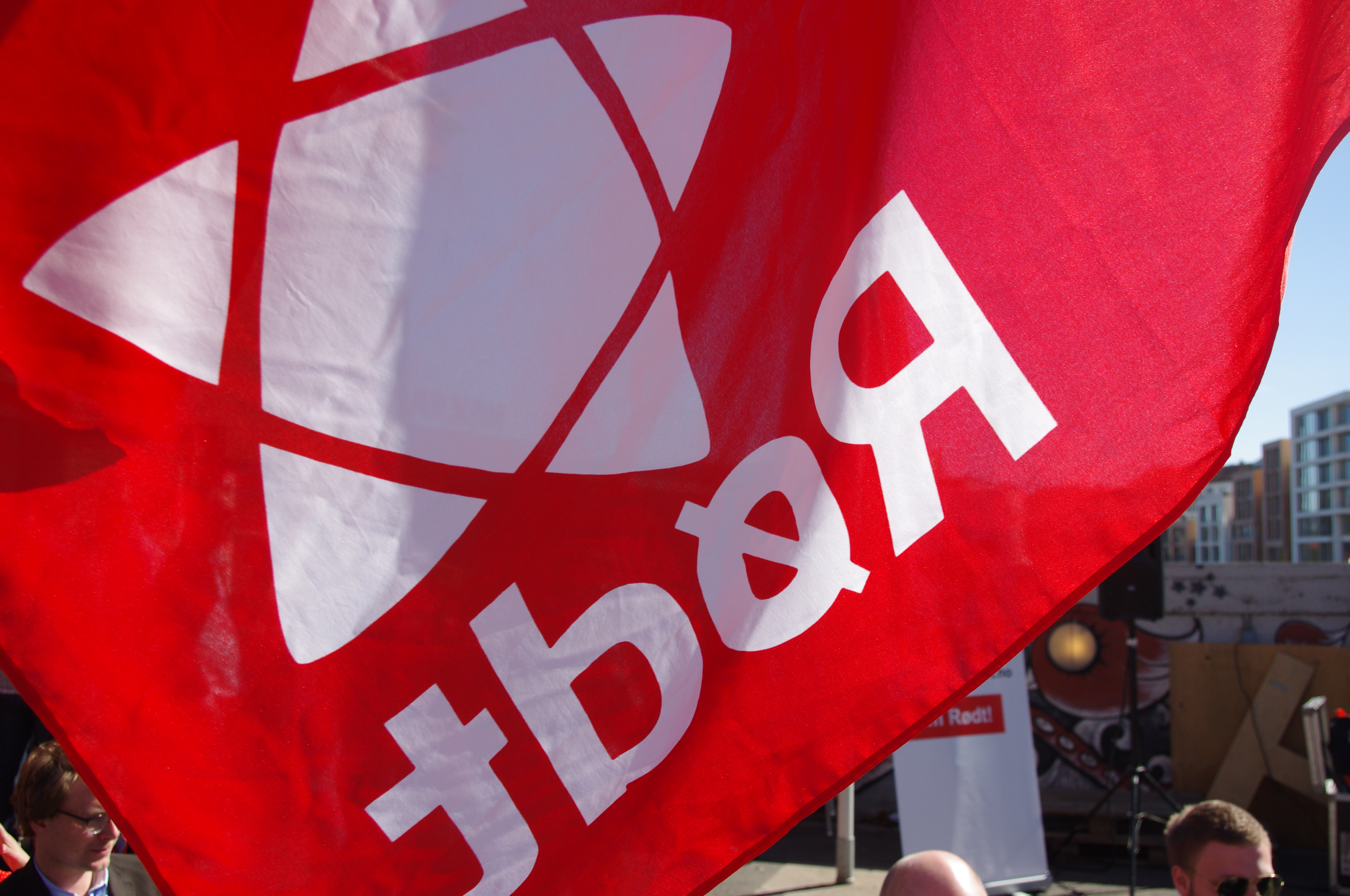 Flag Rødt